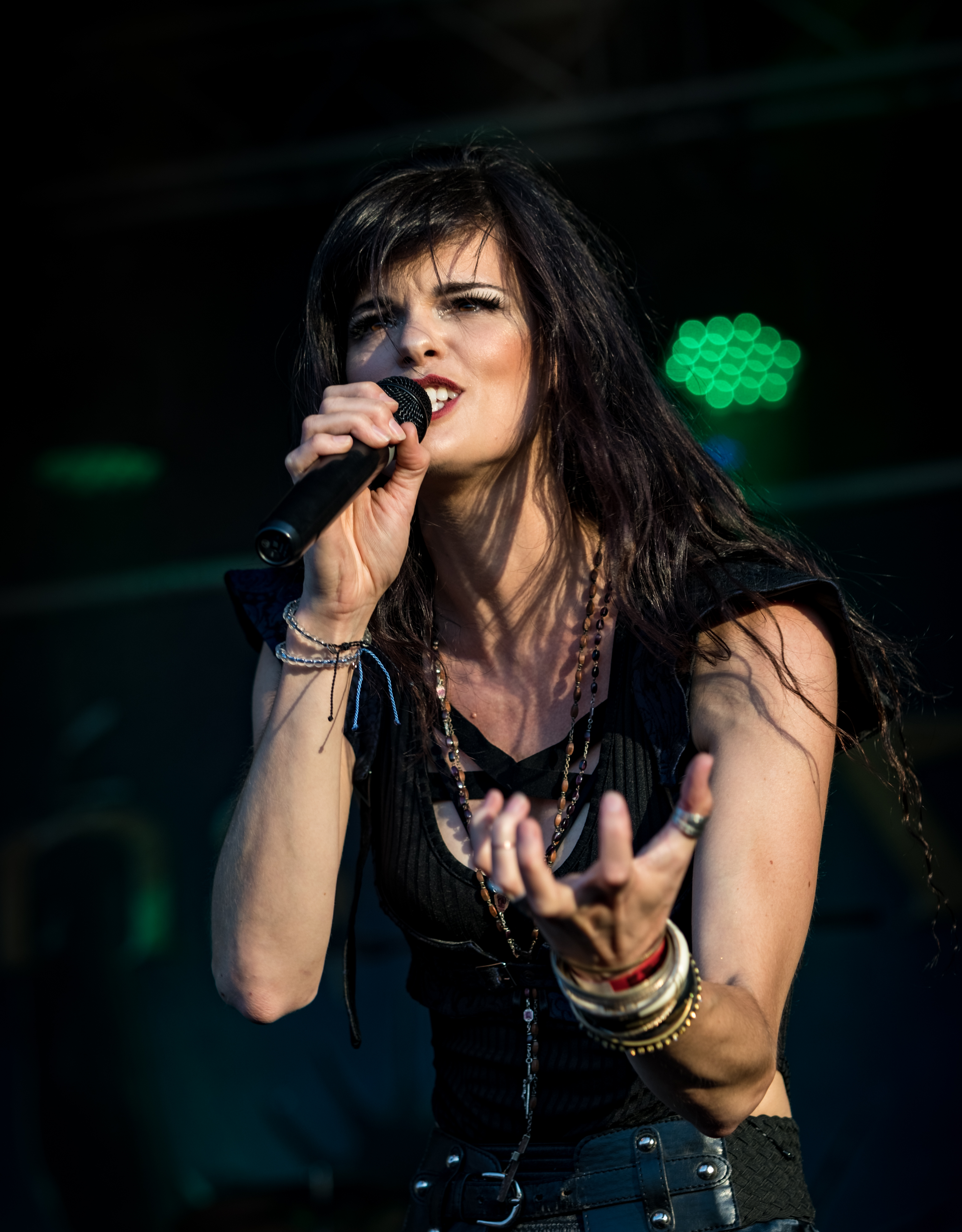 Visions of Atlantis - Wacken Open Air 2018